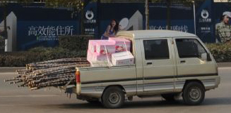 Liuzhou/SAIC Wuling LZW 1010SD/PSN - heavily loaded